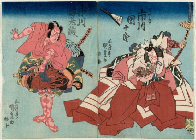 Taira commander Seno Kaneyasu in a duel during the Genpei War.